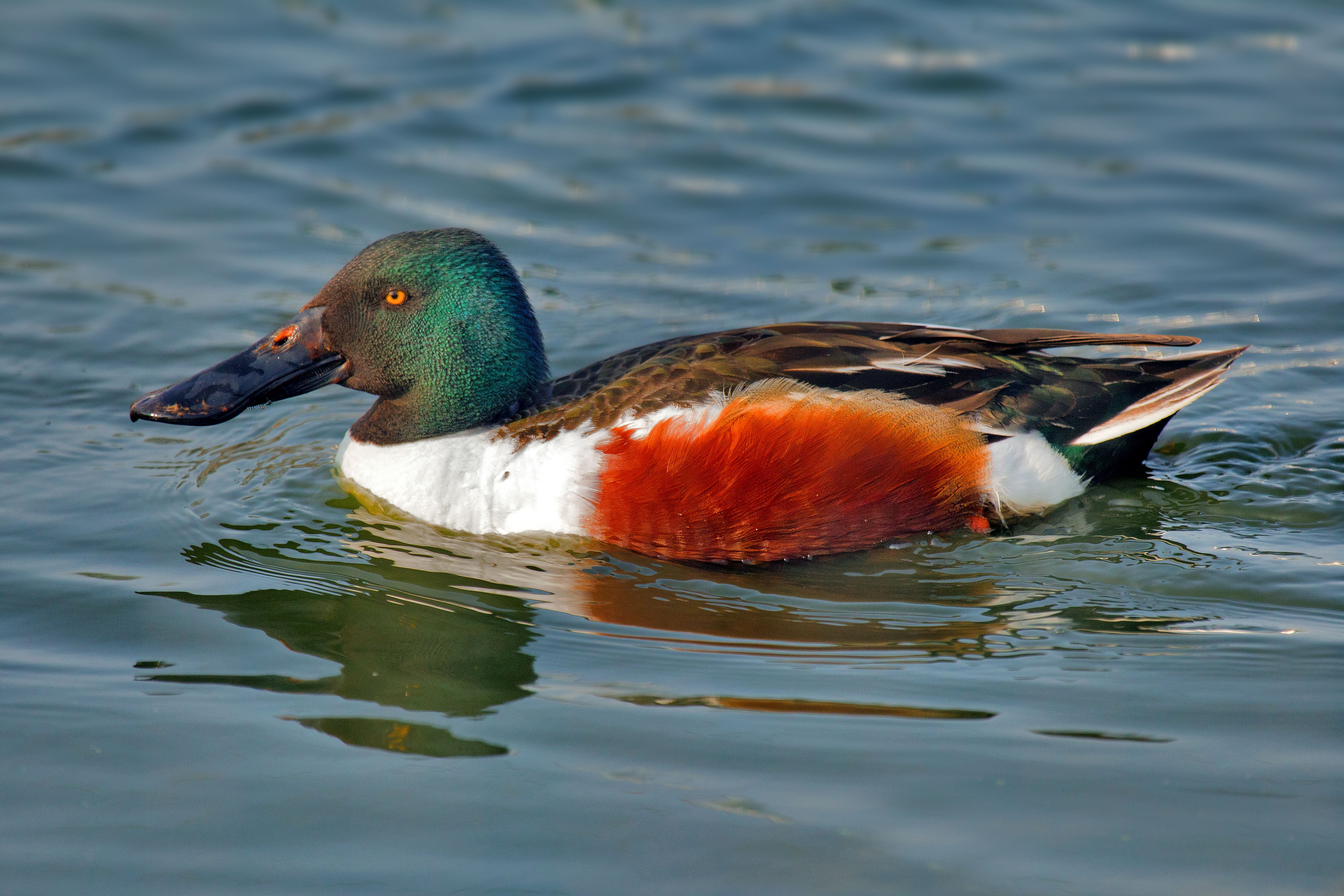 Northern Shoveler